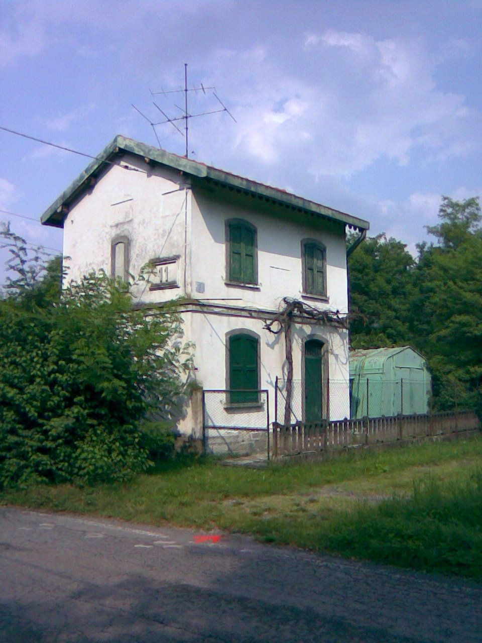 Crossing keeper's house number 11 on the former Como-Varese railway in Olgiate Comasco